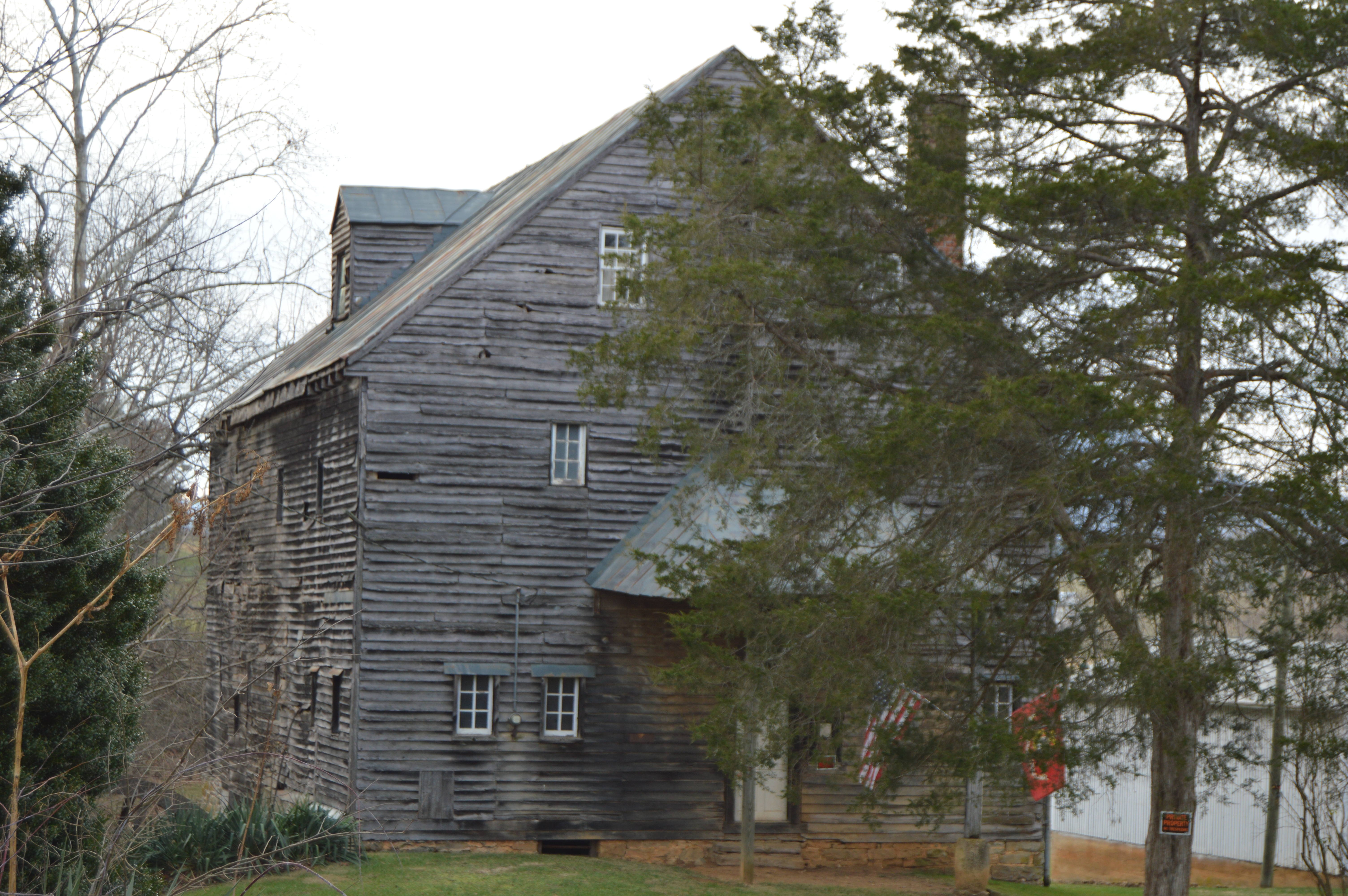 Front and southeastern side of the Hays Creek Mill, located on Hays Creek Road west of Brownsburg in Rockbridge County, Virginia, United States. Built in 1819, it is listed on the National Register of Historic Places.